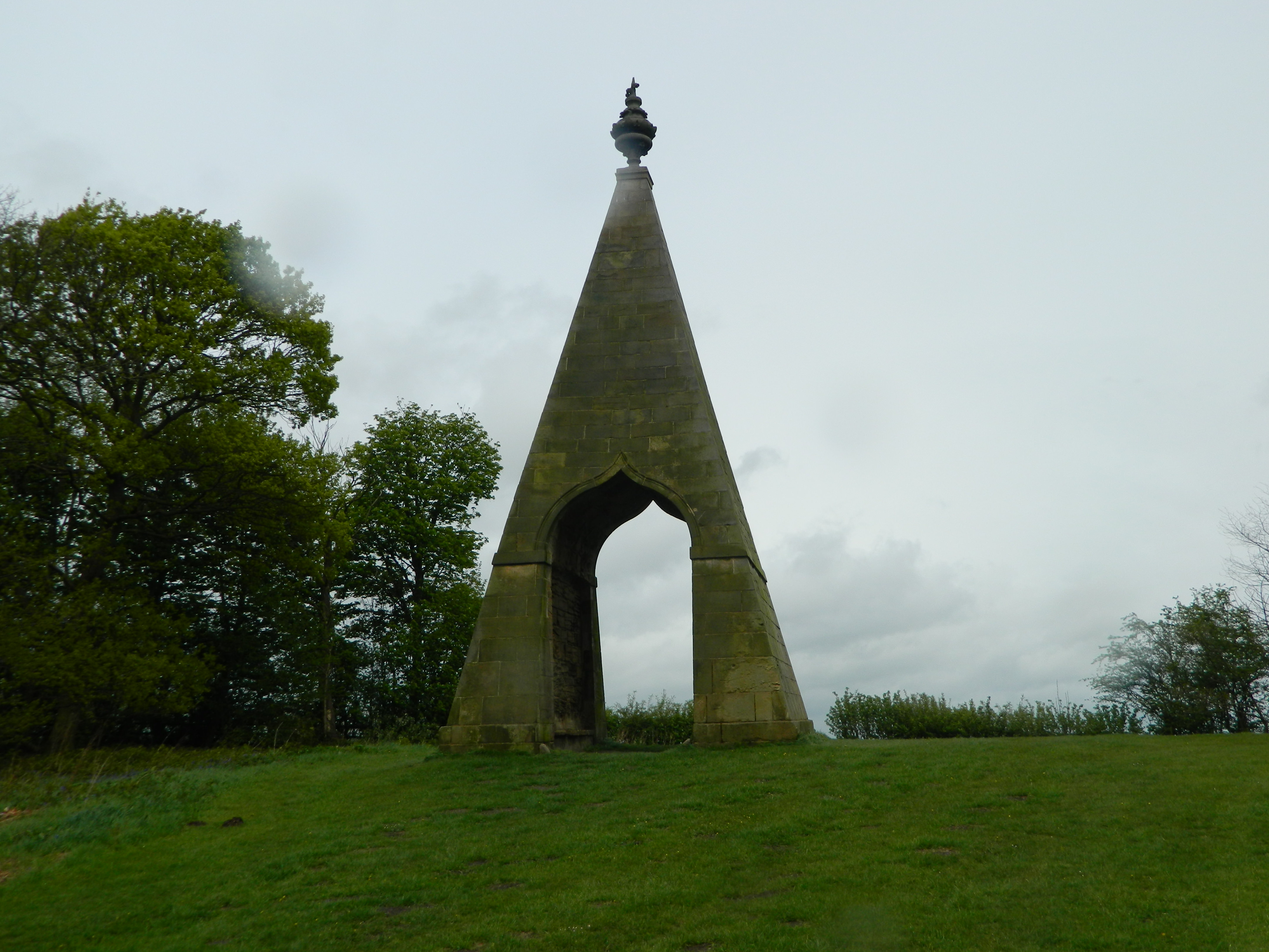 The Needle's Eye which is located in Wentworth, Rotherham, South Yorkshire.